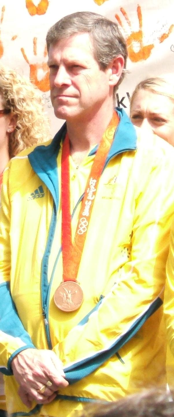 Warren Potent at the 2008 Olympic homecoming parade in Adelaide